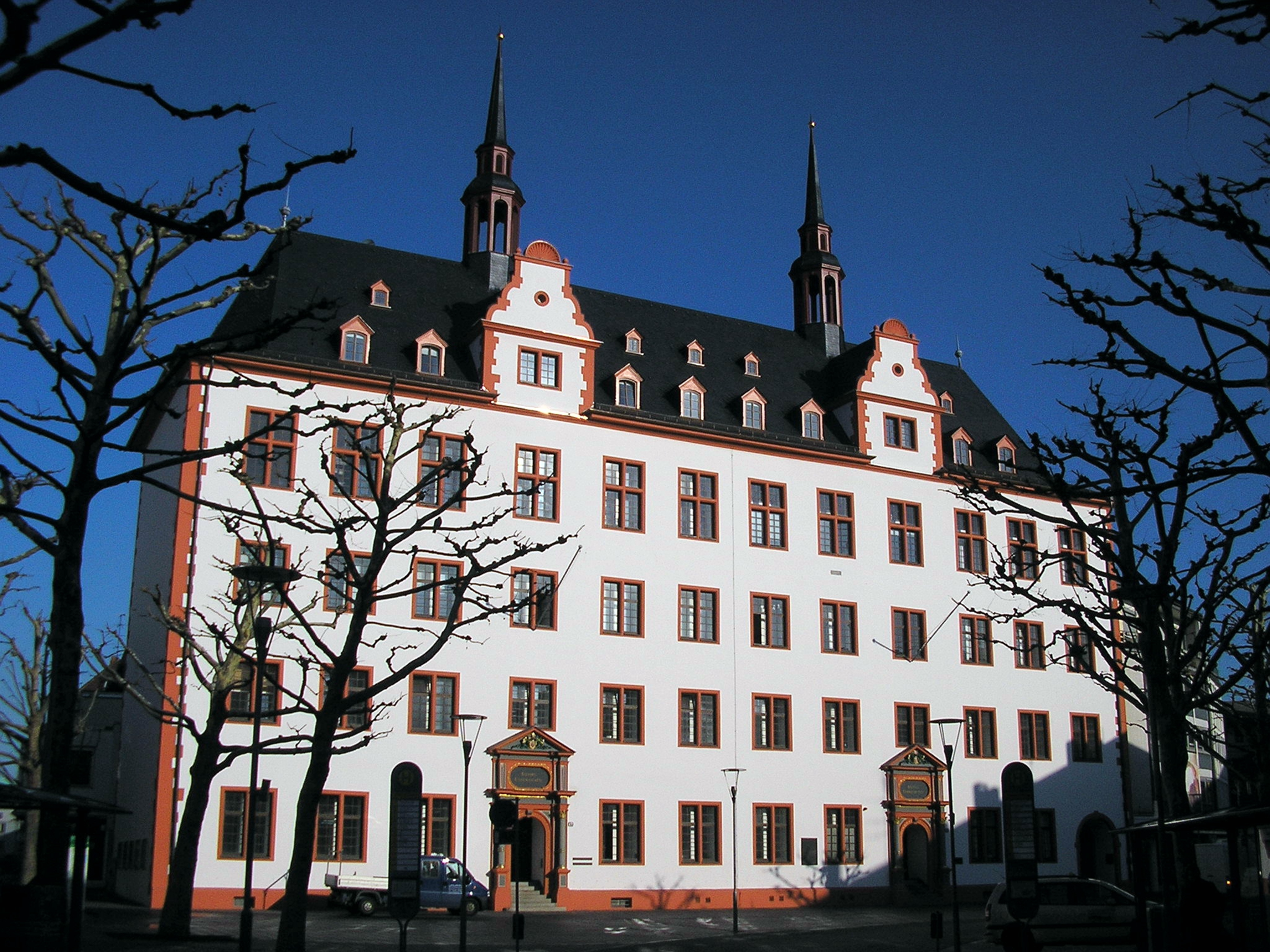 Image: Domus Universitatis/ Mainz; Author: Benutzer:Moguntiner; Date of creation: april 2006 Licence:Creative Commons BY SA 2.5